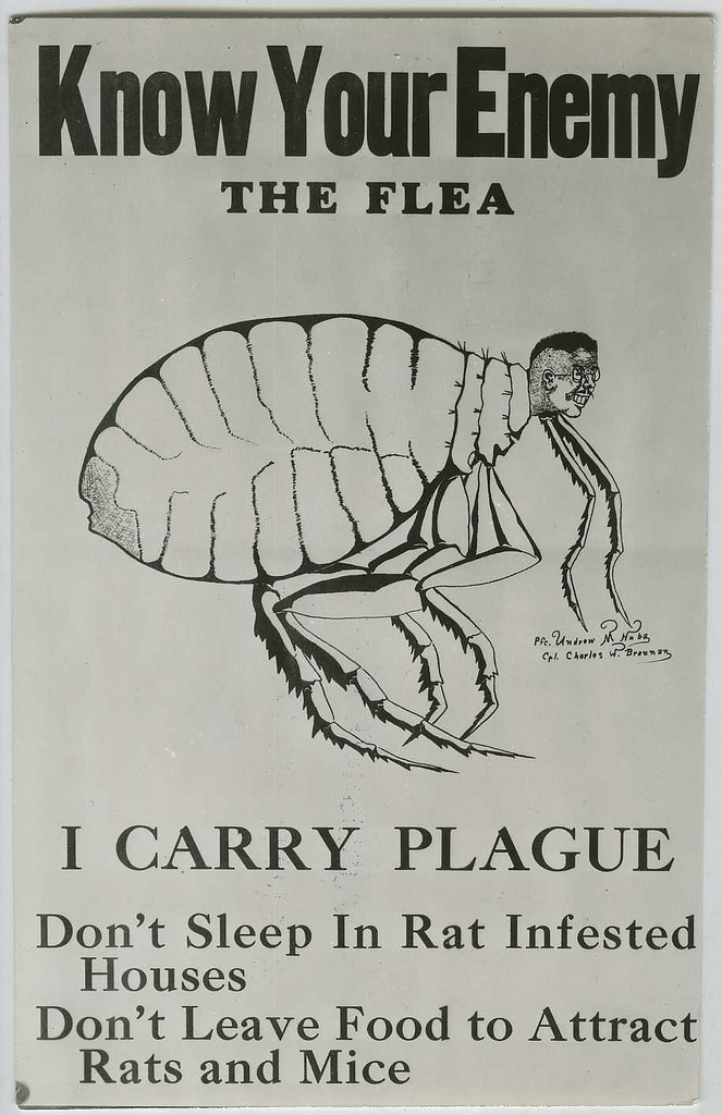 Know Your Enemy the Flea poster.